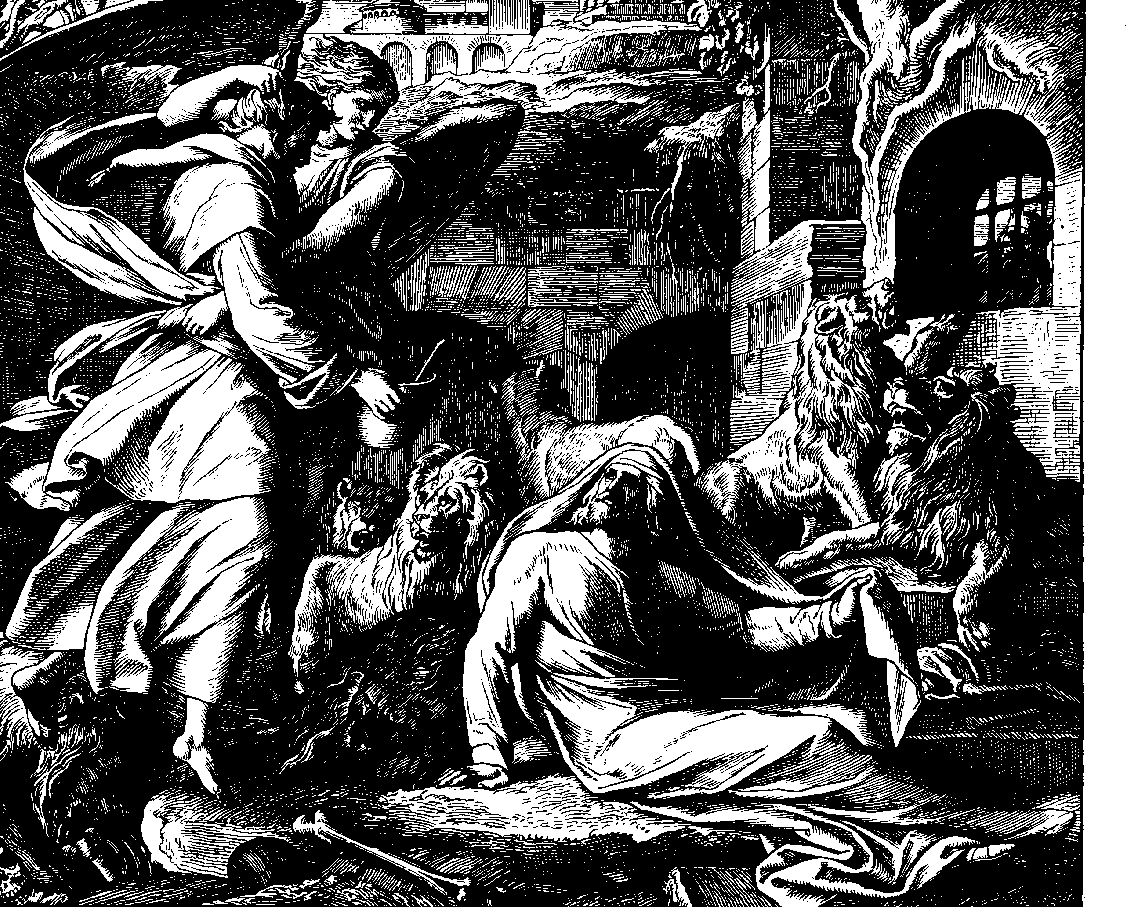 Woodcut for "Die Bibel in Bildern", 1860.